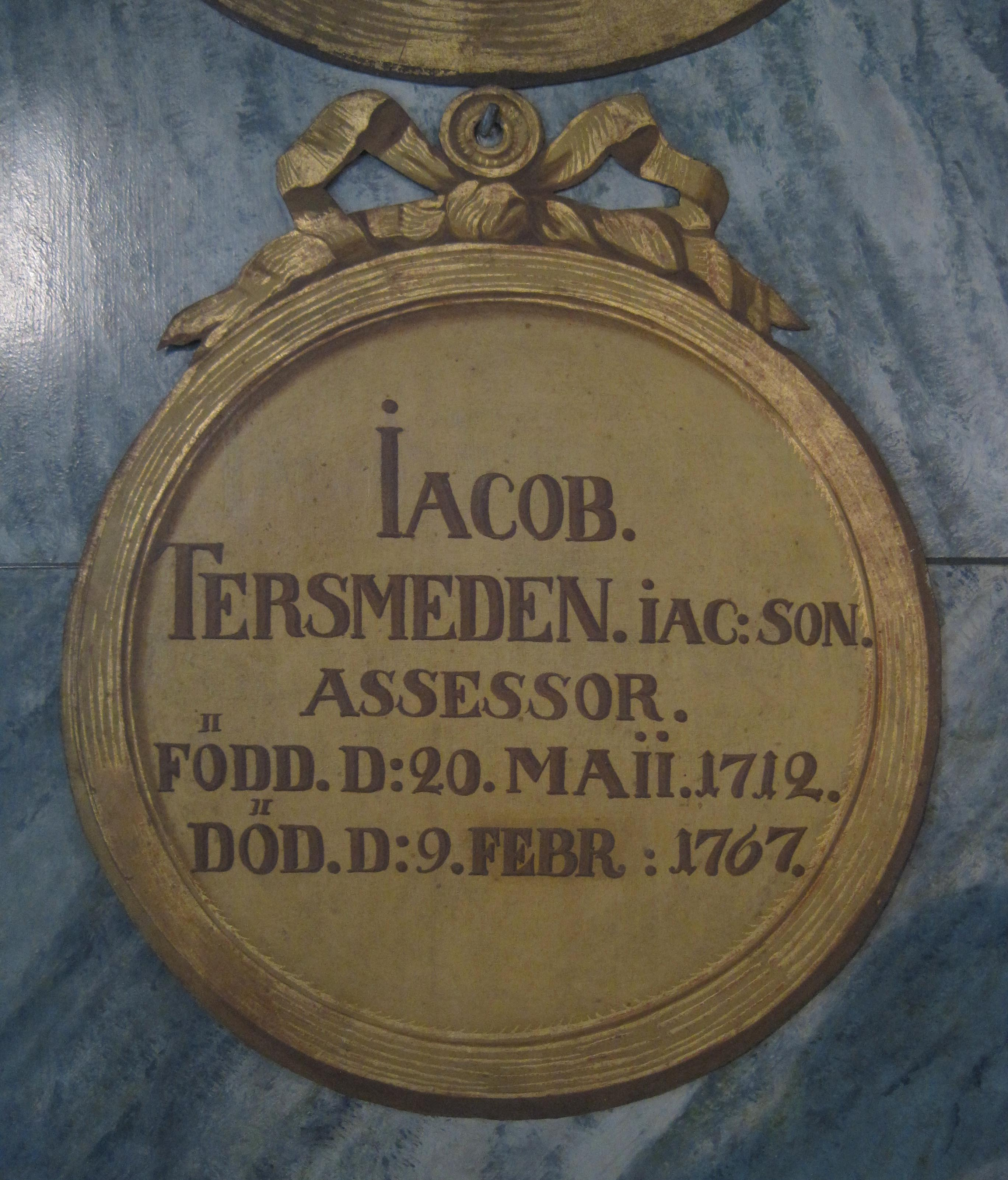 Nameplate for Jacob Tersmeden den yngre (1712-1762) in the Tersmeden family chapel of Söderbärke kyrka, Sweden.